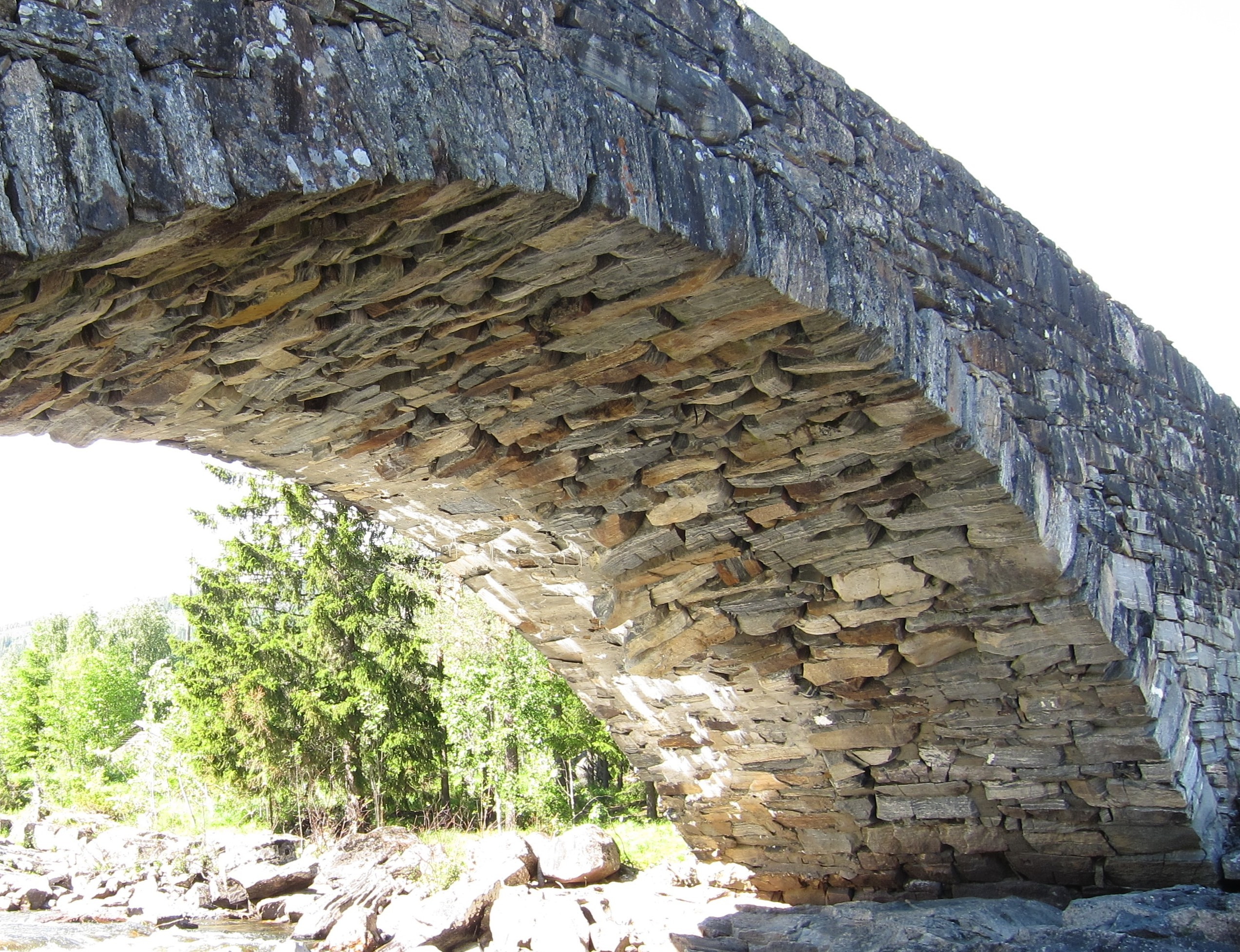 Details of dry stone masonry, Lunde bridge, Etnedal, NorwayNorsk nynorsk: Underside av Lunde bru i Etnedal